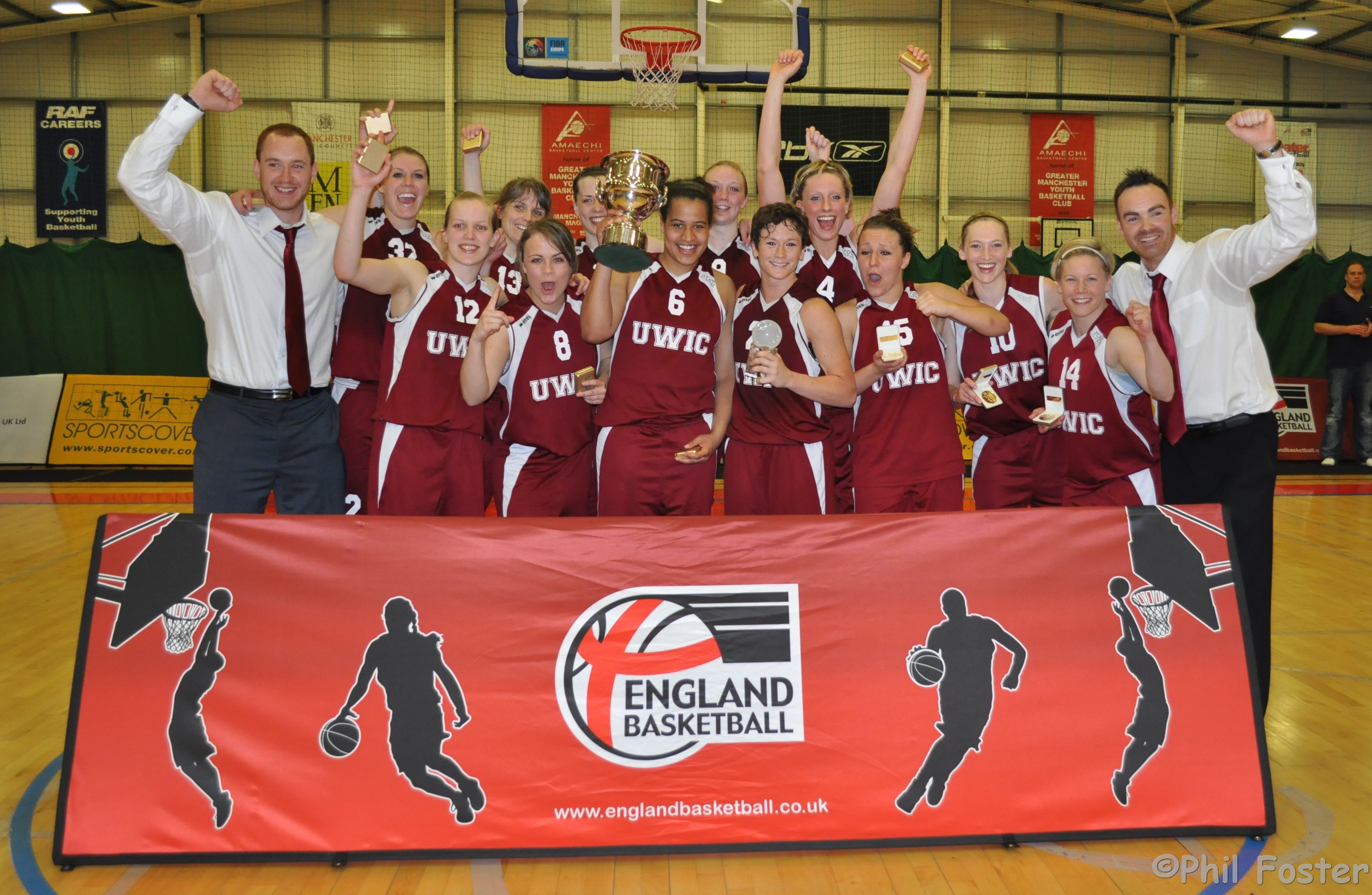 Winning Team UWIC Archers 2010